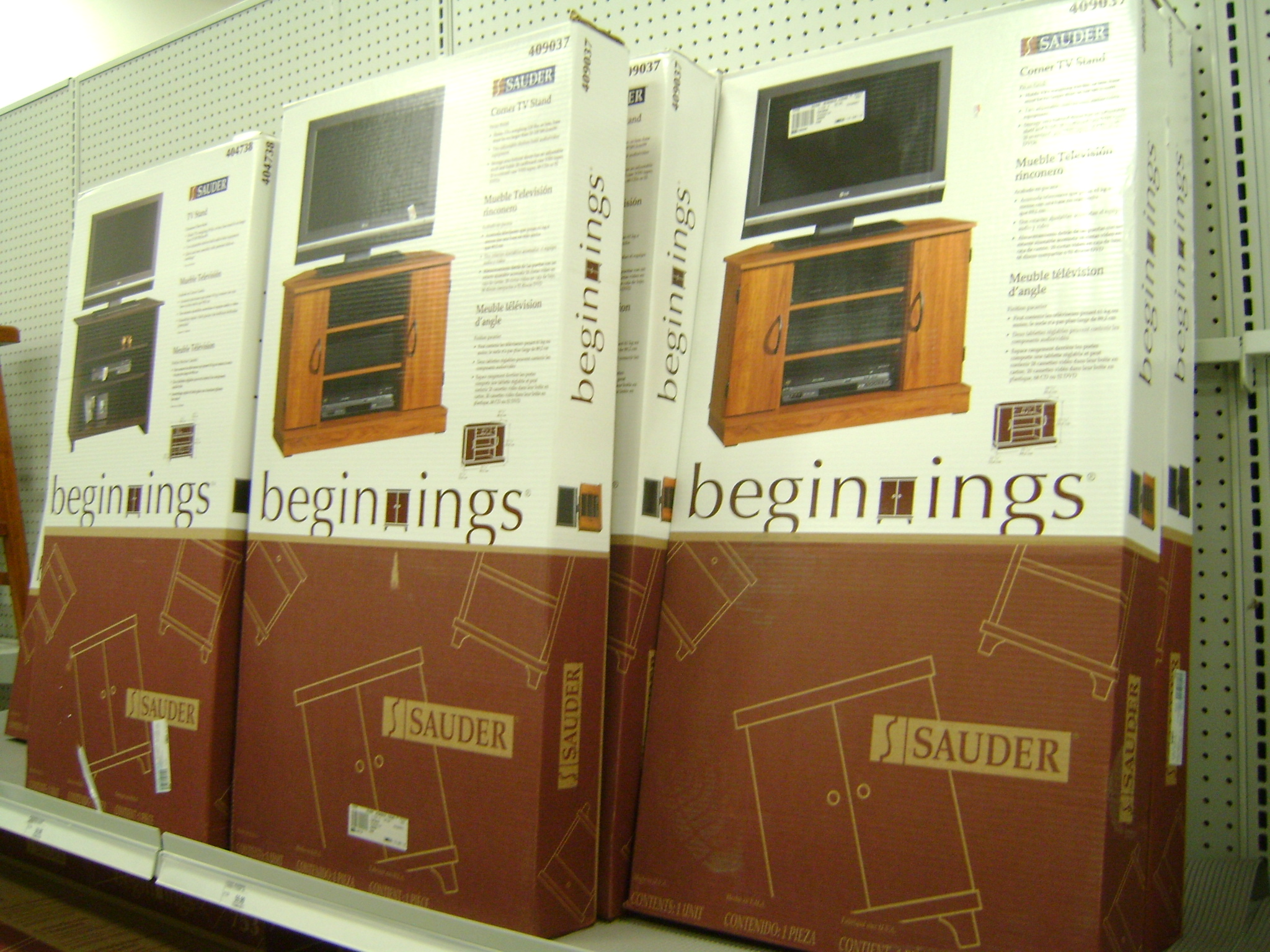 Sauder ready-to-assemble furniture in box